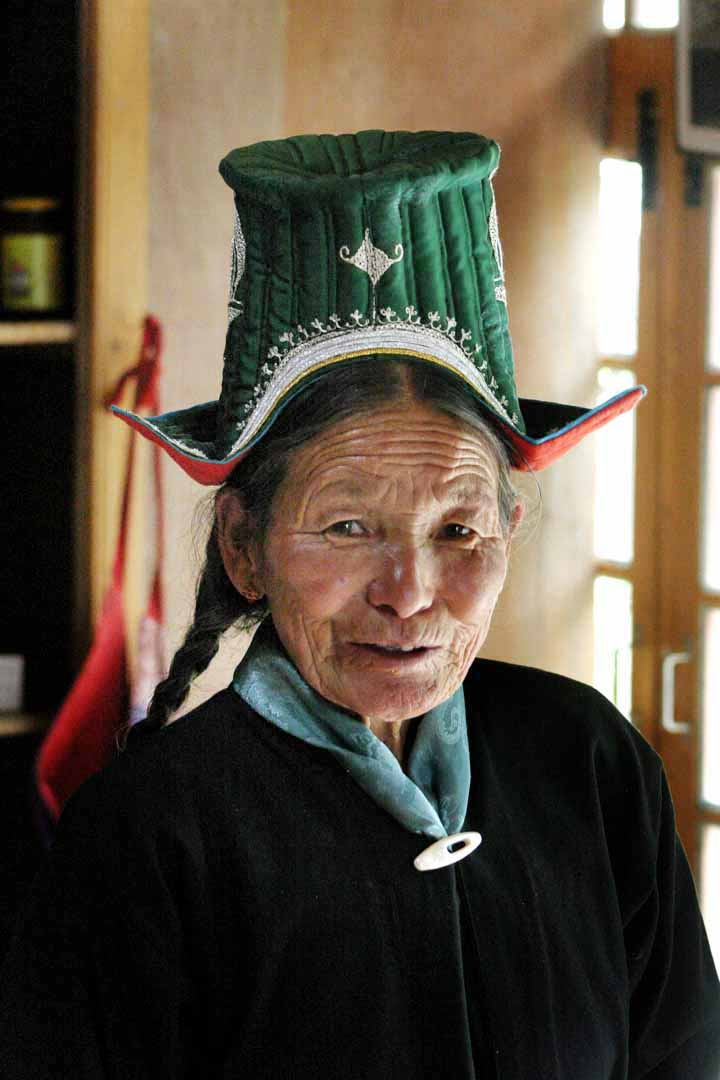 A woman from Ladakh province, Jammu and Kashmir, India. She wears a traditional Ladakhi dress and hat.